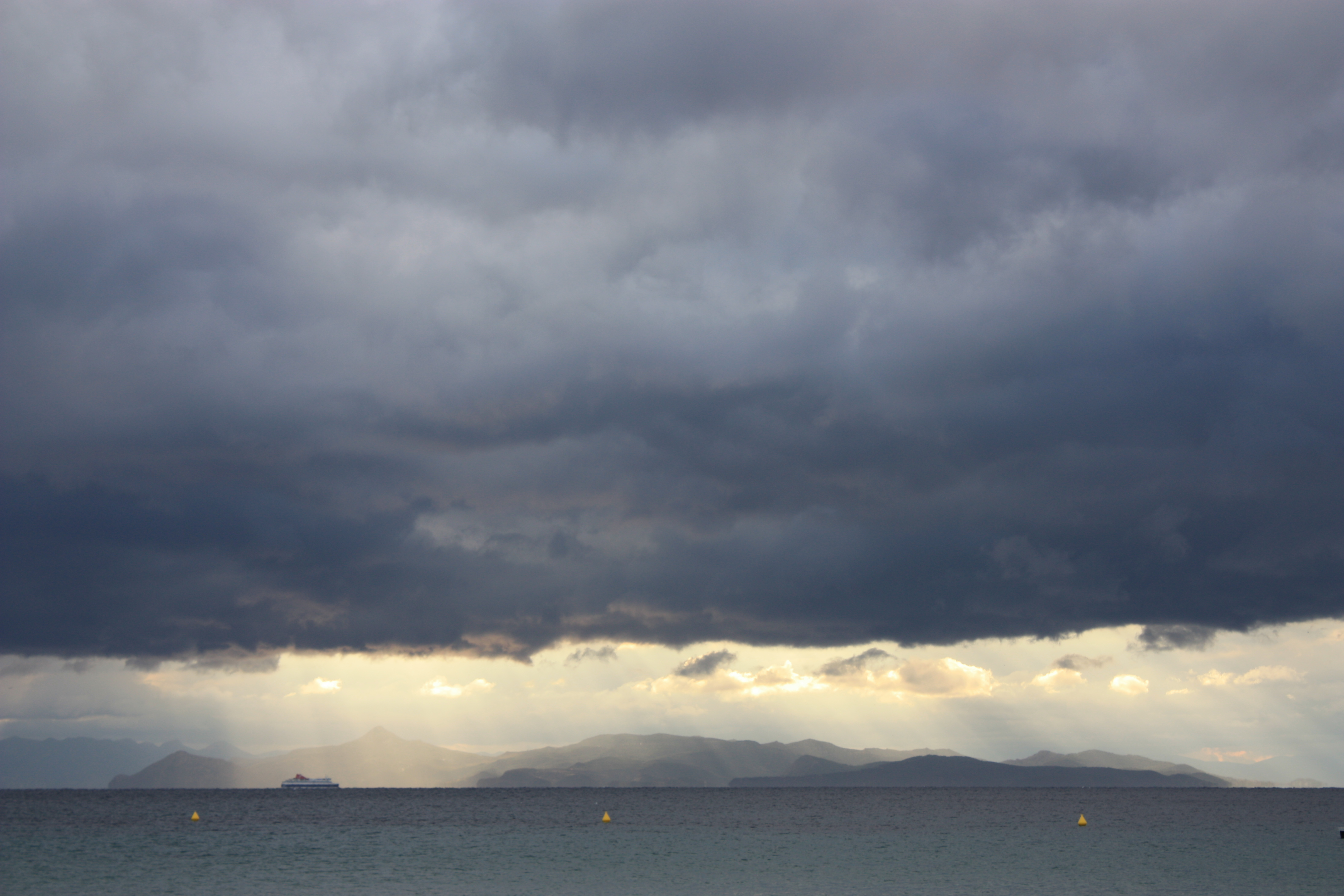 Saronic Gulf from Astir Beach, Vouliagmeni, looking towards Aegina Island and the Peloponnese, Greece, 2009